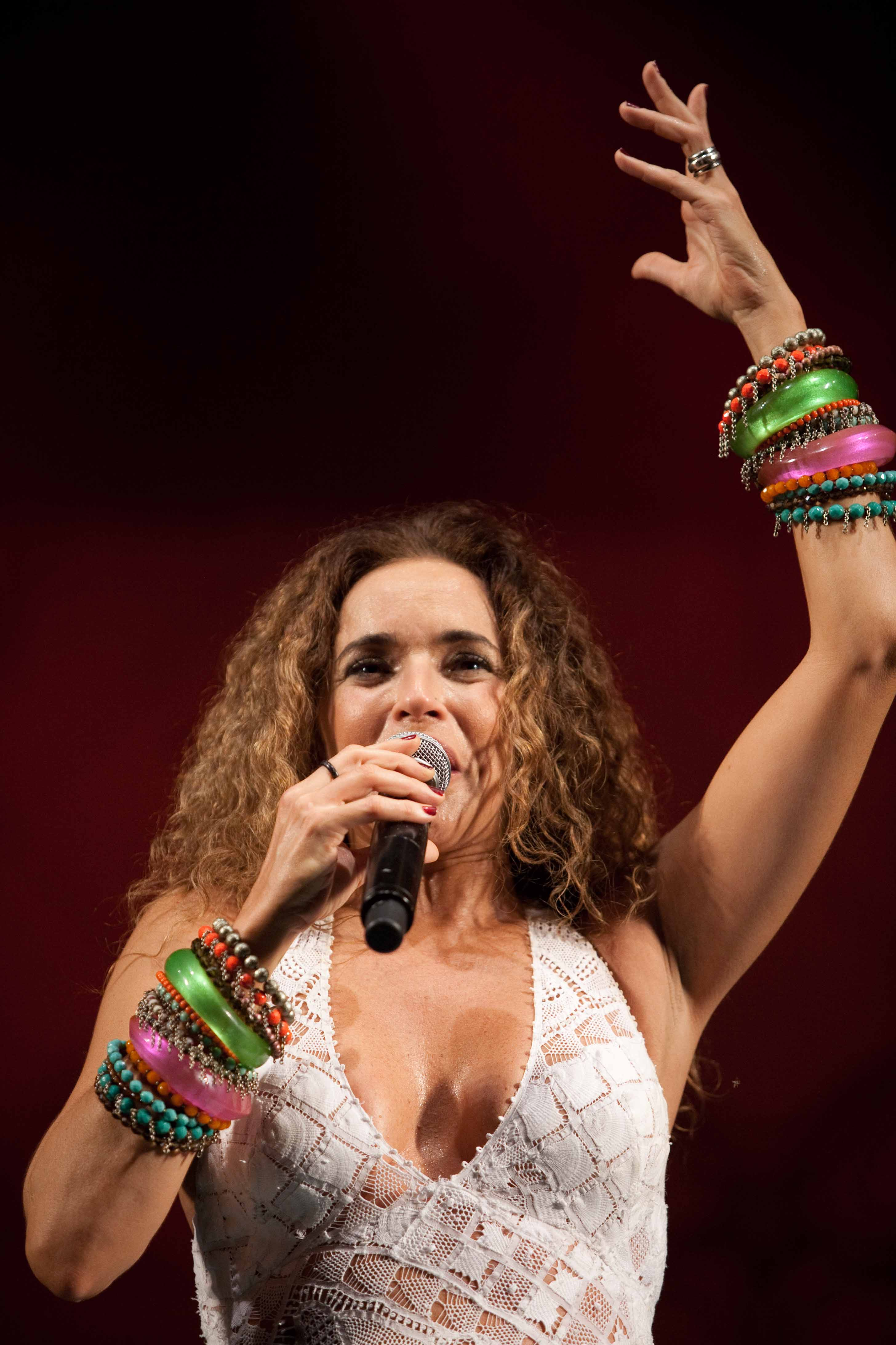 Daniela Mercury during the celebration of the 35th anniversary of Cape Verde's independence .